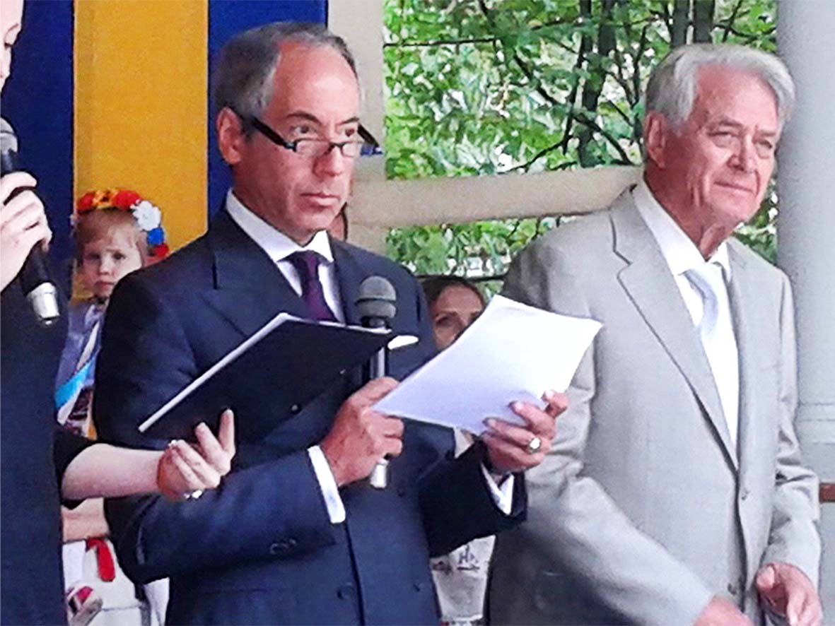 Ambassador Extraordinary and Plenipotentiary of the Sovereign Military Order of Malta to Ukraine Antonio Gazzanti Pugliese Di Cotrone